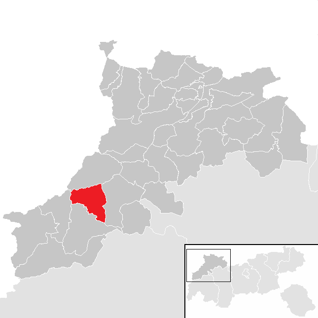 District Reutte